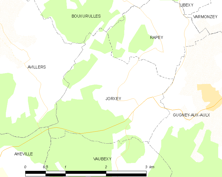 Map of French municipality Jorxey